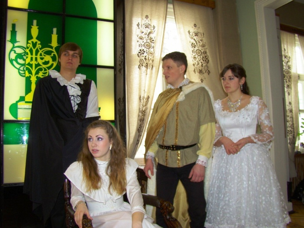 Фабула. "Орфей великого Неаполя"